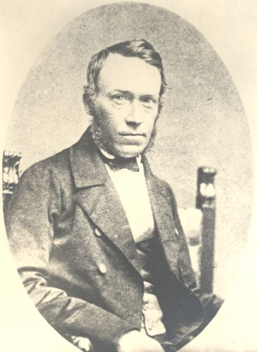 Heinrich Eugen Ludwig Mercklin (1816-1863), professor of classical philology at the University of Tartu in 1851-1863